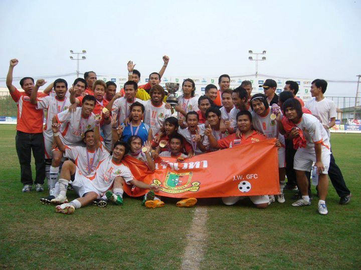 Kor Royal cup